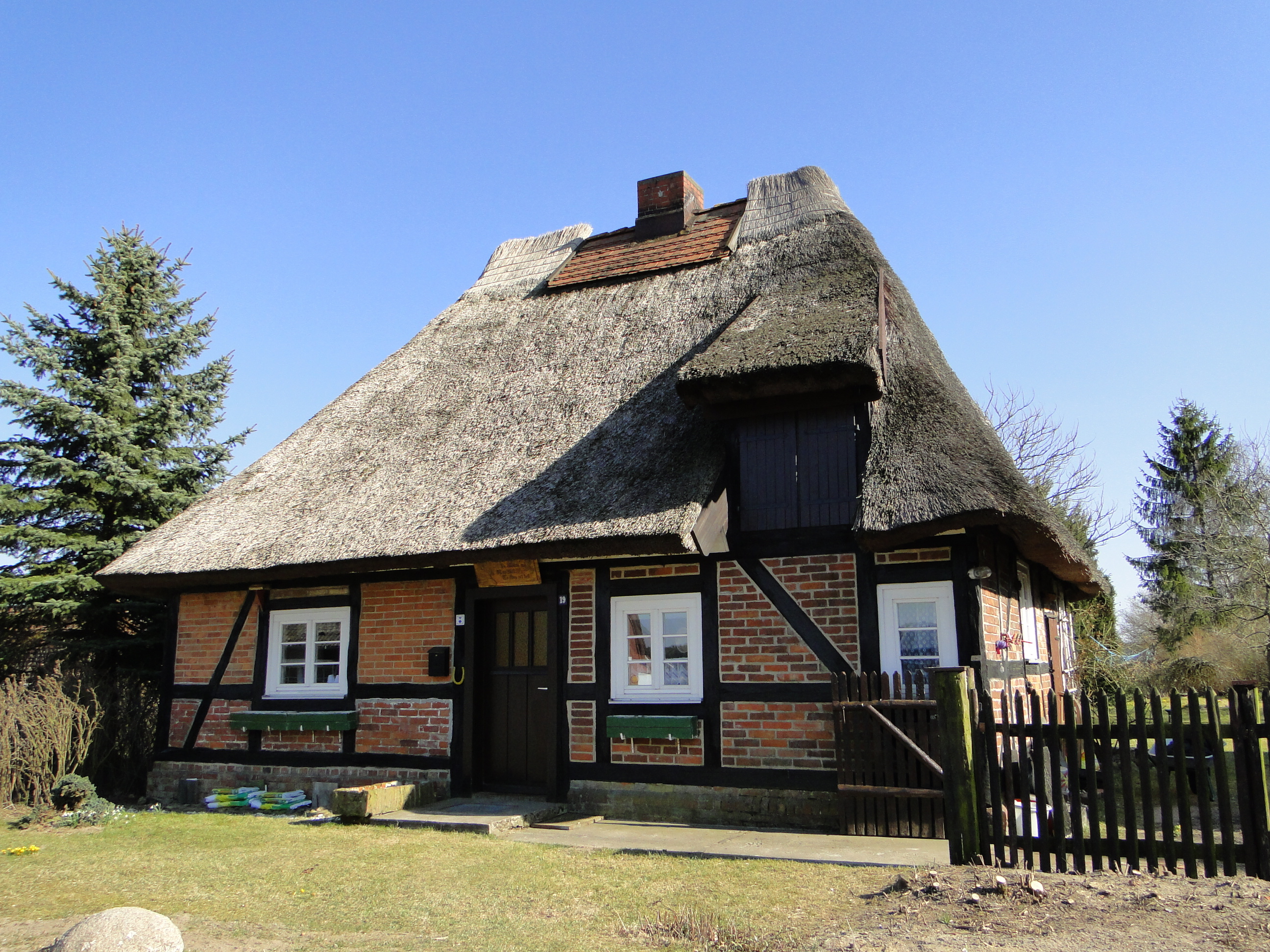 Timber framed buildung with thatched roof in Dobbin, district Ludwigslust-Parchim, Mecklenburg-Vorpommern, Germany